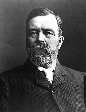 William Ogilvie FRGS, a Canadian Dominion land surveyor, explorer and Commissioner of the Yukon Territory